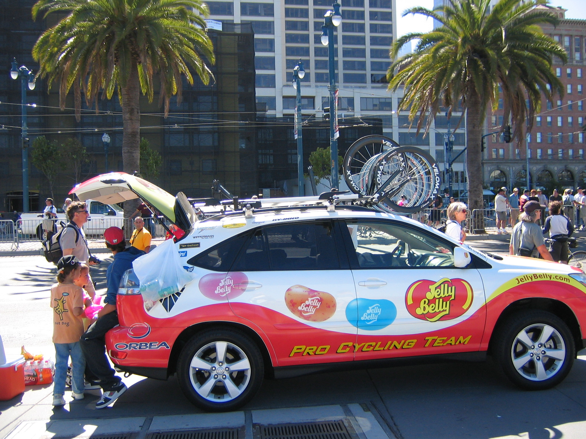 Jelly Belly team car